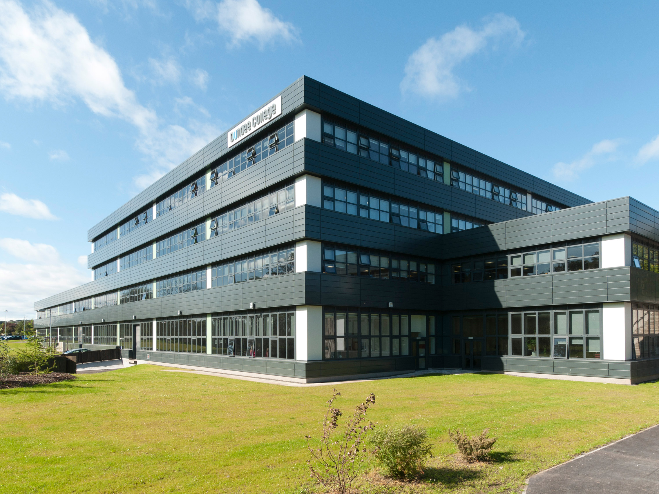 Dundee College, Gardyne Campus, Gardyne Road, Dundee DD5 1NY